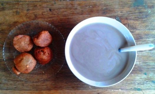 A Ghanaian breakfast Koose (in Nigeria called:Akara) = Bean Cakes = prepared from Eye-beans, eggs, onions, salt, pepper, vegetable oil and optional: seasons; Koko = Millet porridge